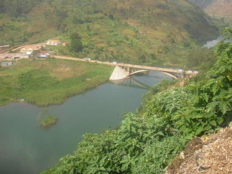 Pont Ruzizi II in 2009, view from Rwanda